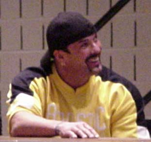 Photo of Buff Bagwell at Q&A session at wrestling show in Canton, OH, taken by myself, January 2005.